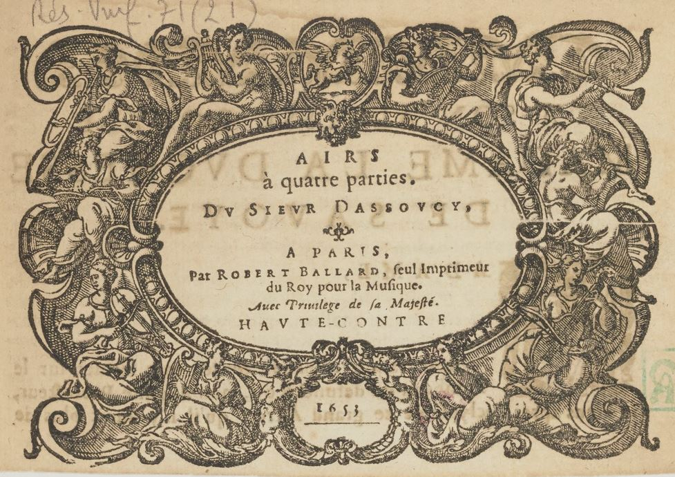 Title page of D'Assoucy Airs (Paris, 1653).